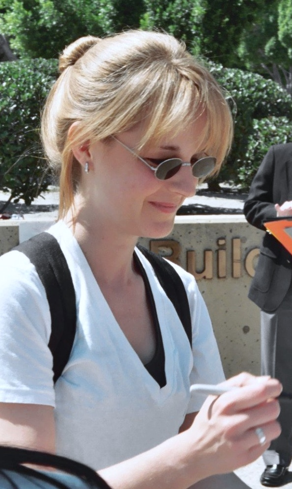 Actress Helen Hunt in 1994 Emmy Awards.